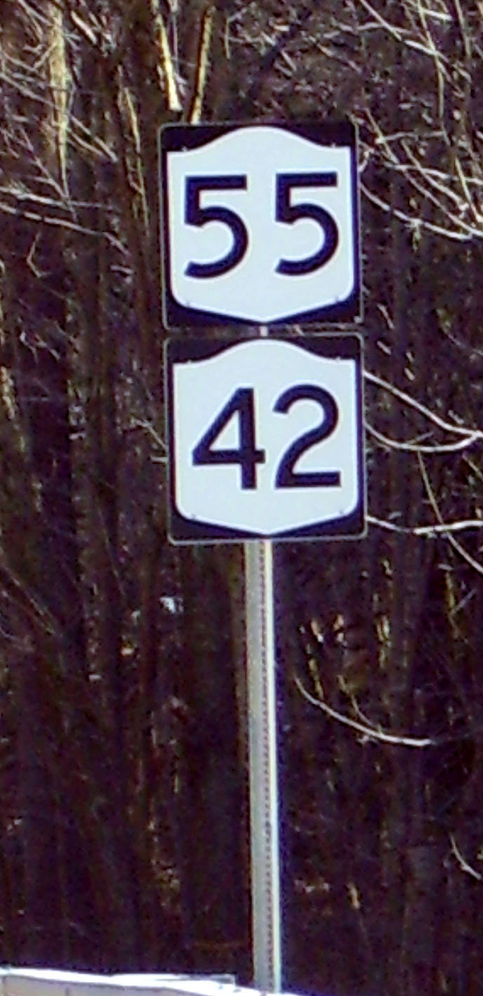 Photographed by Daniel Case 2006-03-21